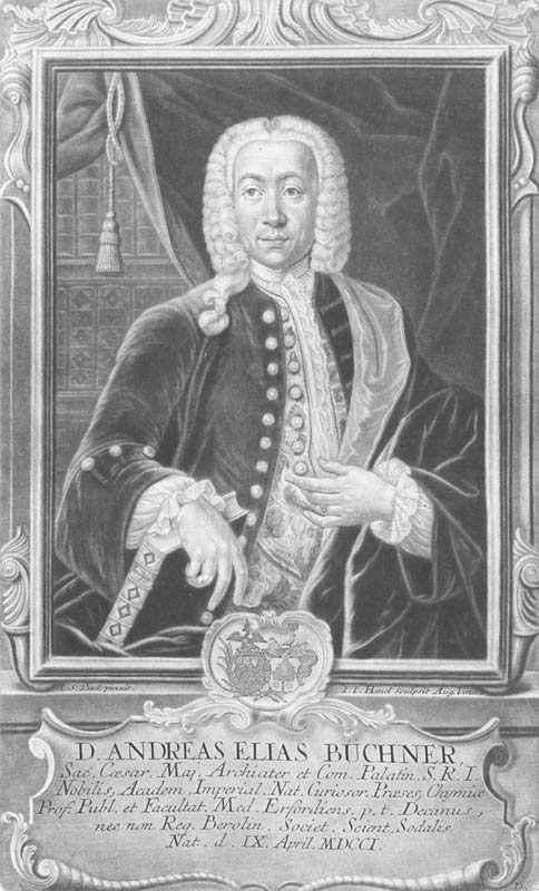 Andreas Elias Büchner(1701-1769) Physicians from Germany